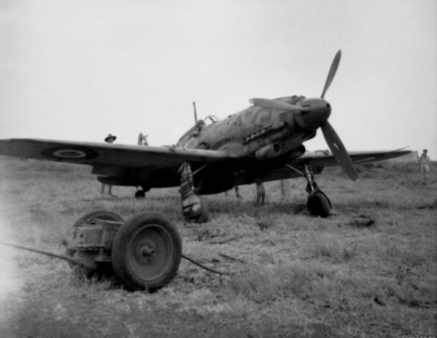 An Italian Macchi C.205 Veltro aircraft found on Catania airfield, Sicily (Italy), by personnel of No. 450 Squadron RAAF and subsequently serviced by the squadron's fitters.